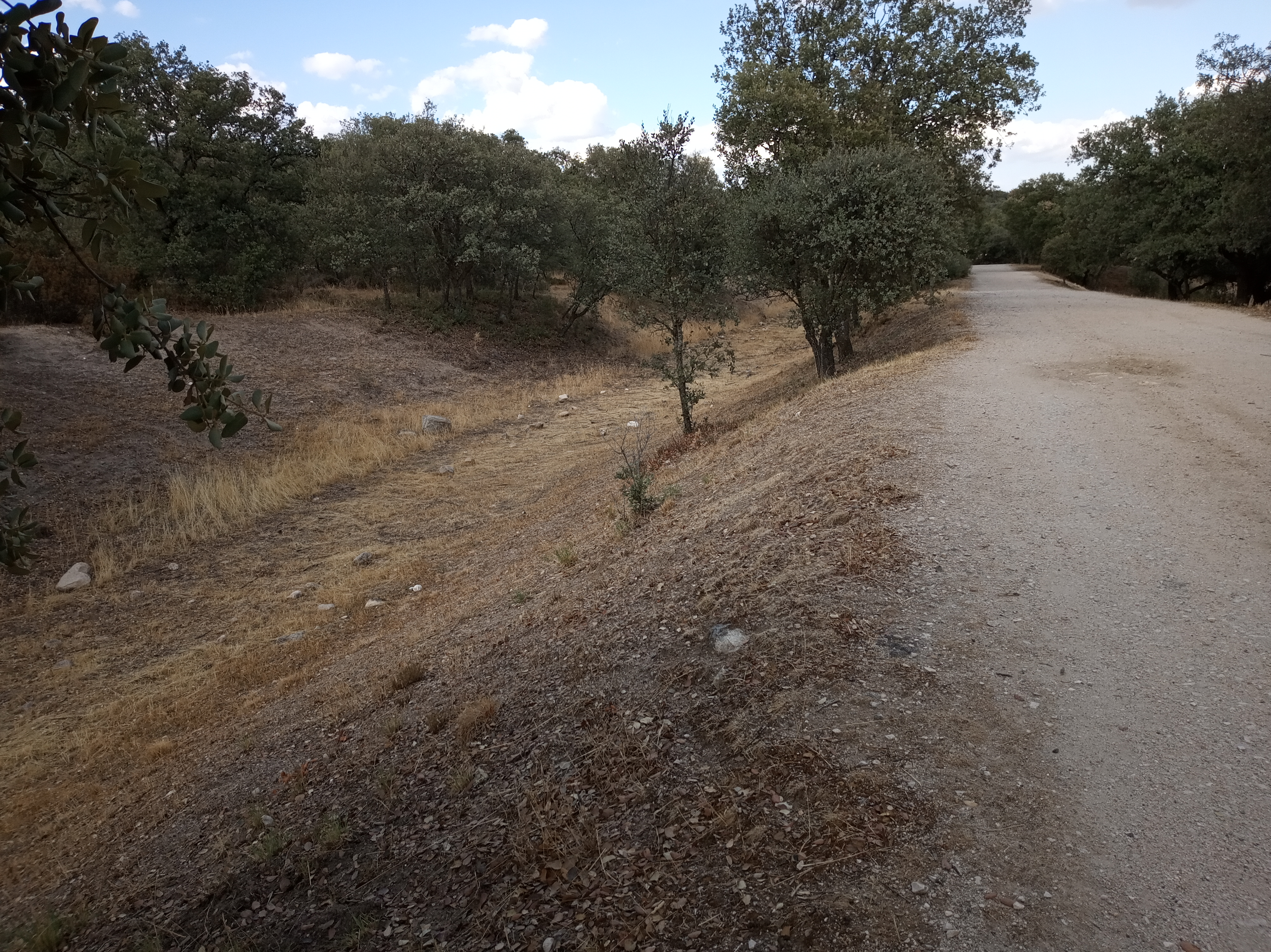 Canal of Guadarrama and towpath